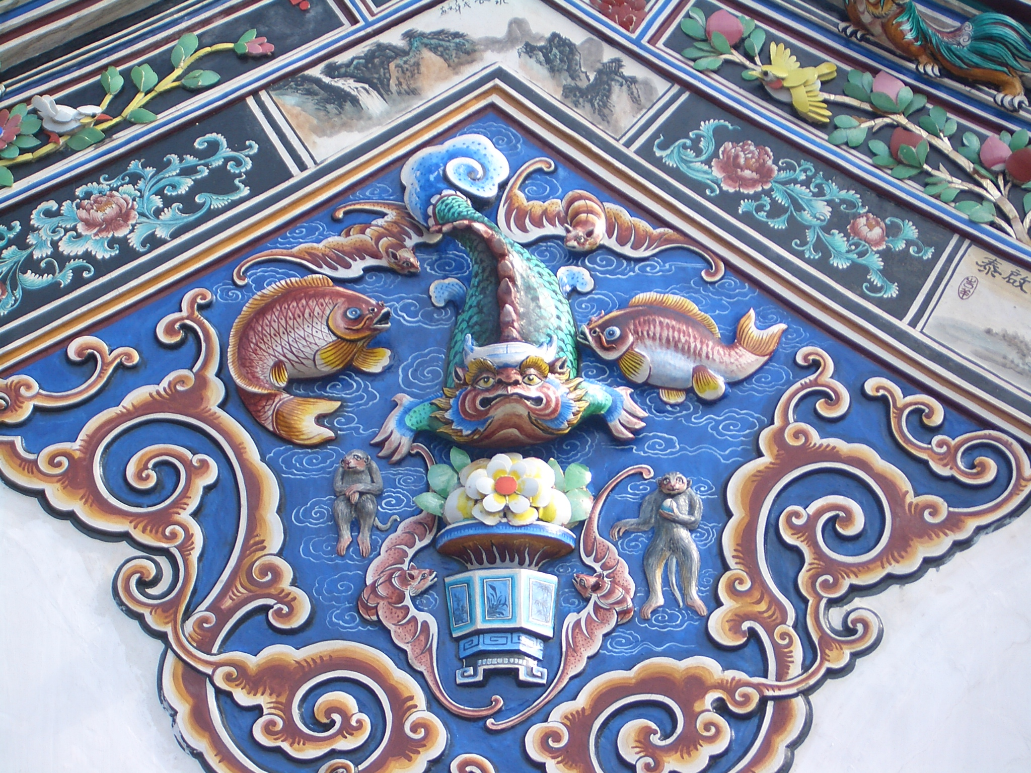 Relief on on the outside of Poh San Teng (宝山亭), a Chinese temple just south of Bukit Cina (the China Hill) in Melacca, Malaysia.